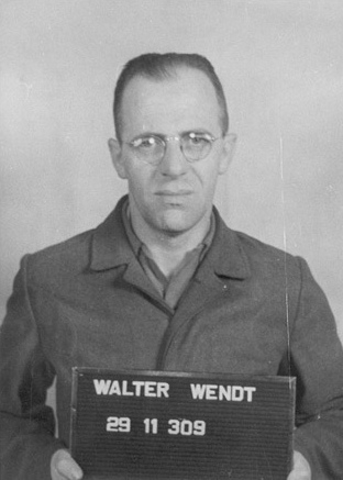 Walter Wendt was civilian and chief of department for foreign cilian workers at Erla Machine factory in subcamp of the concentration Camp of Buchenwald. In the Buchenwald Camp Trial (part of the Dachau Trials) he was sentenced to 15 years of imprisonment (later modified to 5 years of imprisonment). Wendt was SA-Sturmführer.